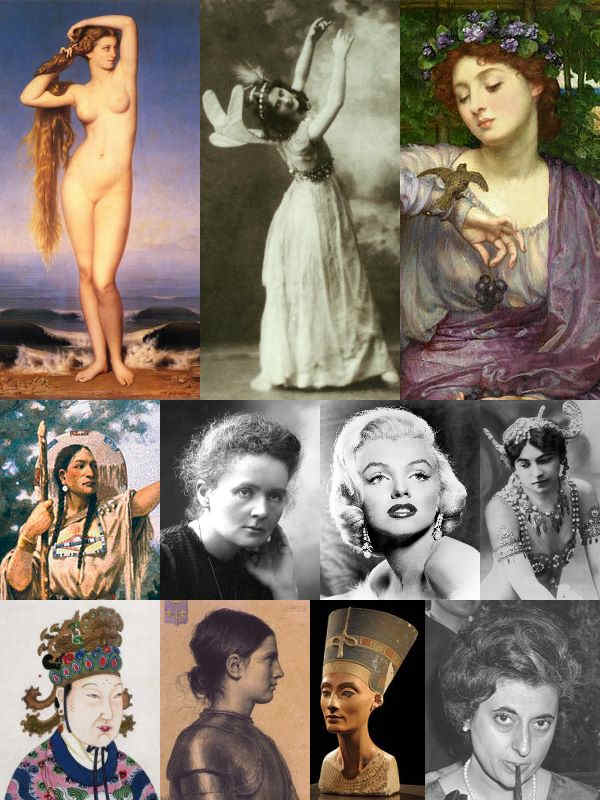 Made from free images from Above, left to right: Birth of Venus, Isadora Duncan, Lesbia; Sacagawea, Maria Skłodowska-Curie, Marilyn Monroe, Mata Hari; Wu Zetian, Joan of Arc, Nefertiti, Indira Gandhi